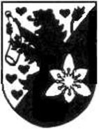 official Coat of Arms of the municipality Didderse (district of Gifhorn, lower saxony, Germany)